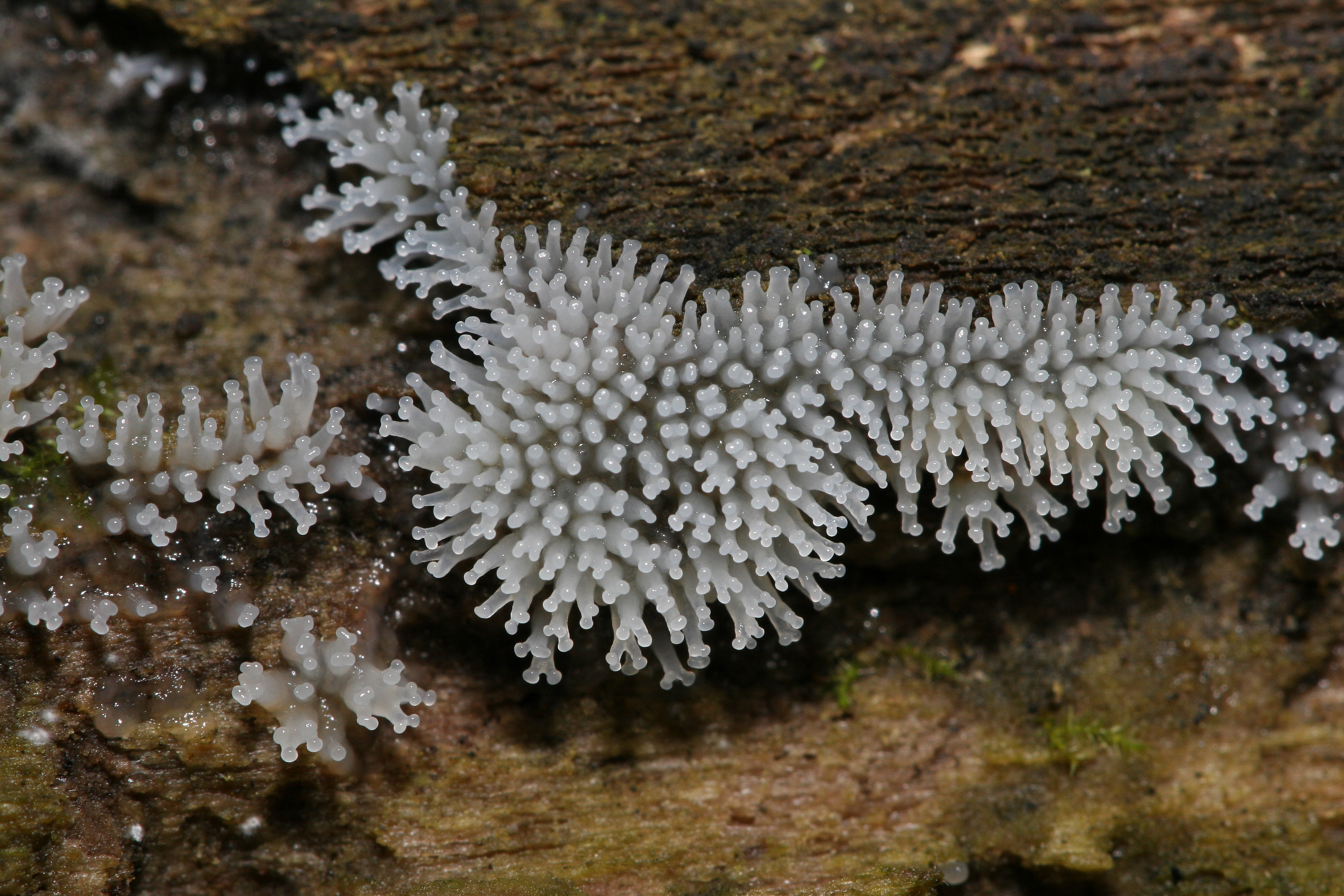 This slime mold is in the process of producing its fruiting bodies. You can see the stalks dividing, and then dividing yet again. From this process, global patterns emerge.